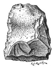 Nermont cave, Saint-Moré, Burgundy, France. Paleolithic. Silex cutter.